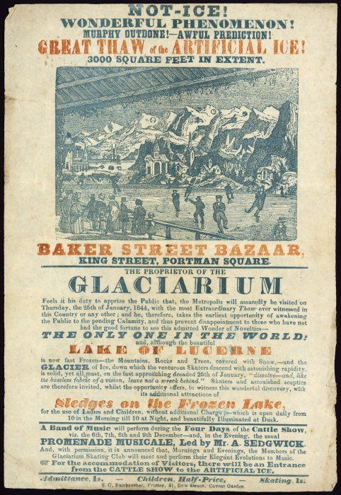 Flier announcing a spectacular event at the Glaciarium (London)